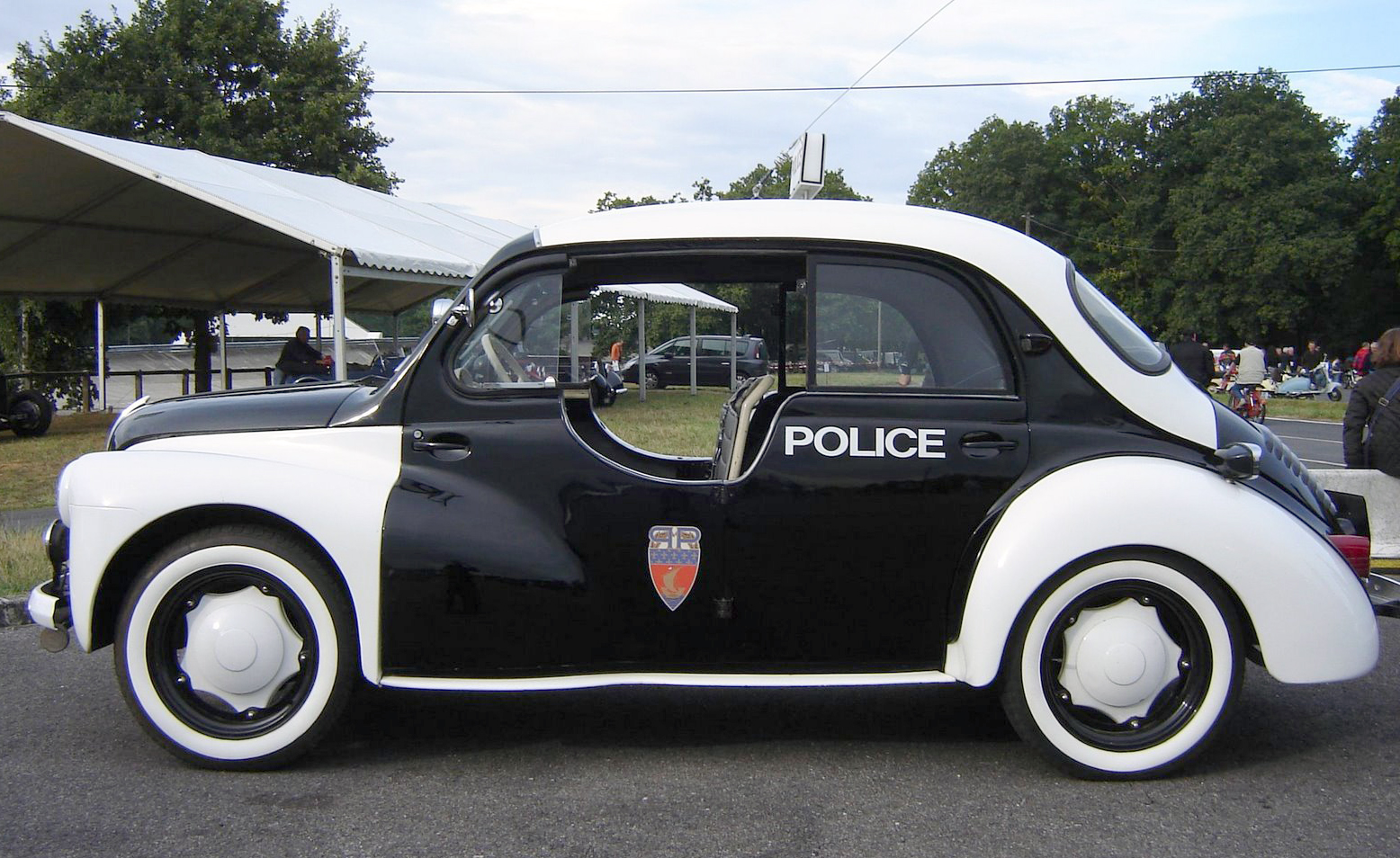 A Renault 4CV Pie ("magpie" - for obvious reasons) in the livery of the Paris Police